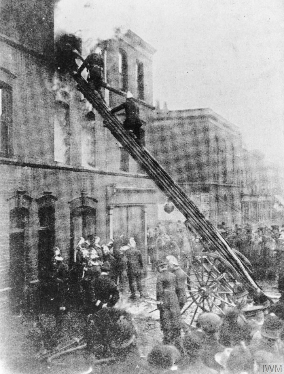 Britain Before the First World War The Sydney Street siege. Firemen tackle a fire at 100 Sidney Street, Stepney, London. Armed anarchists Fritz Svaars and William (or Joseph) Sokolow had barricaded themselves in the property, shot at police and soldiers of the 1st Battalion, Scots Guards, and then set fire to the house on 3 January 1911.